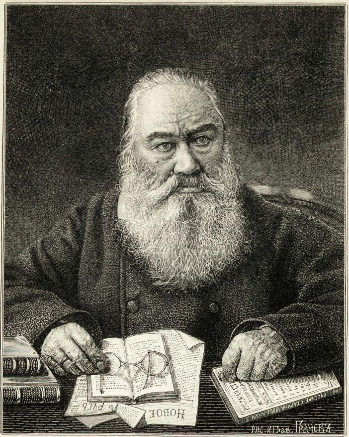 Stogov Erazm Ivanovich